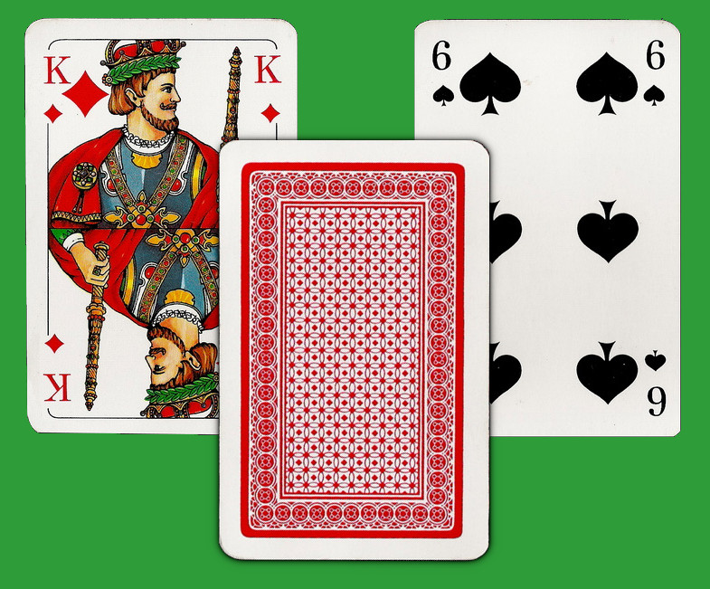 The King of Diamonds and the 6 of Spades, as dealt in a round of Acey Deucey